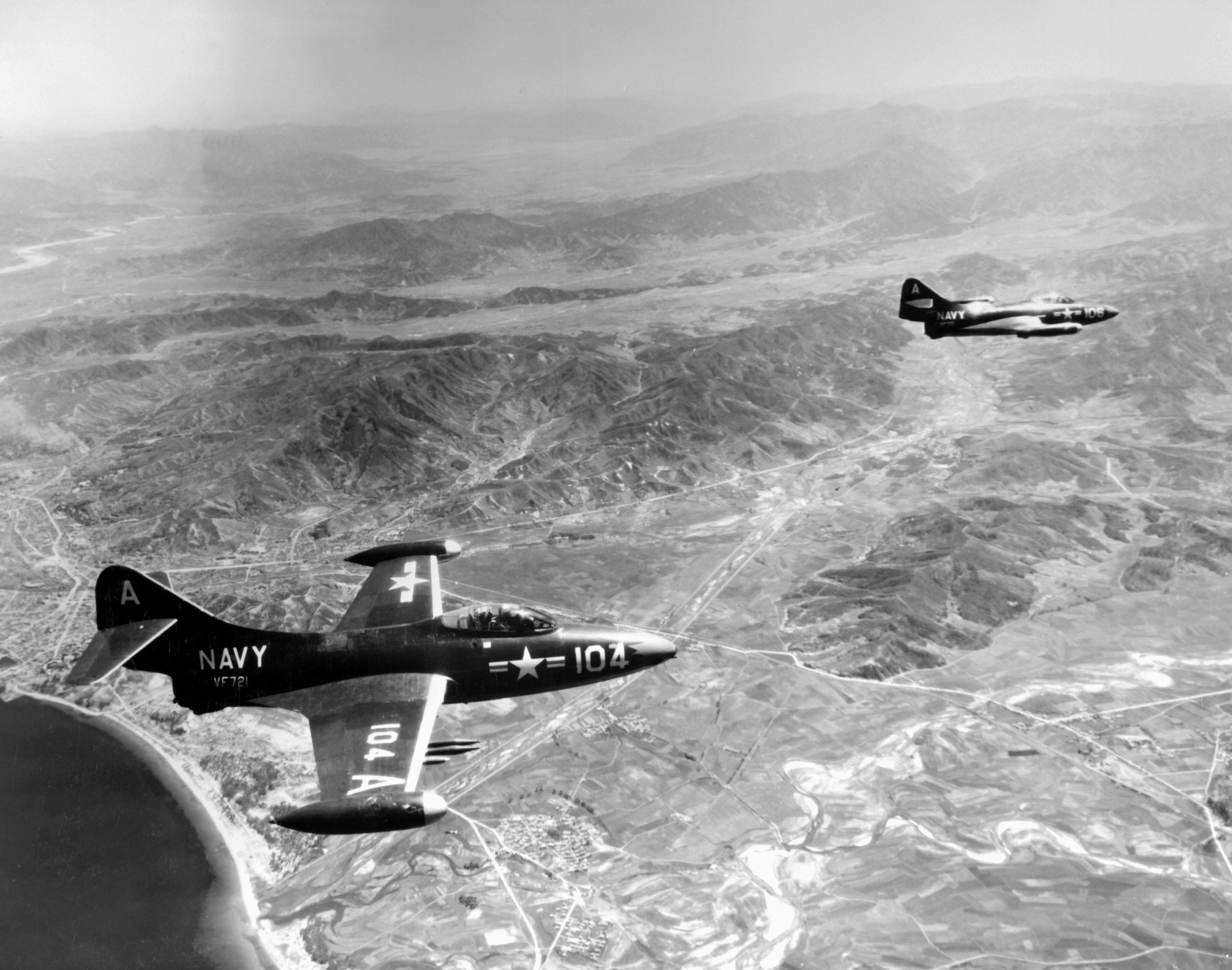 Two U.S. Navy Grumman F9F-2B Panther of Fighter Squadron 721 (VF-721) "Starbusters" flying over Wonsan and heading for Togwon, Korea, on 15 July 1951. VF-721 was assigned to Carrier Air Group 101 (CVG-101) aboard the aircraft USS Boxer (CV-21) for a deployment to Korea from 2 March to 24 October 1951.